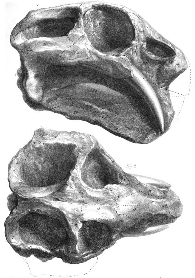 Dicynodon lacerticeps skull. Transactions of the geological society, established November 13th 1807